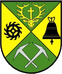 Coat of arms of Müllenbach